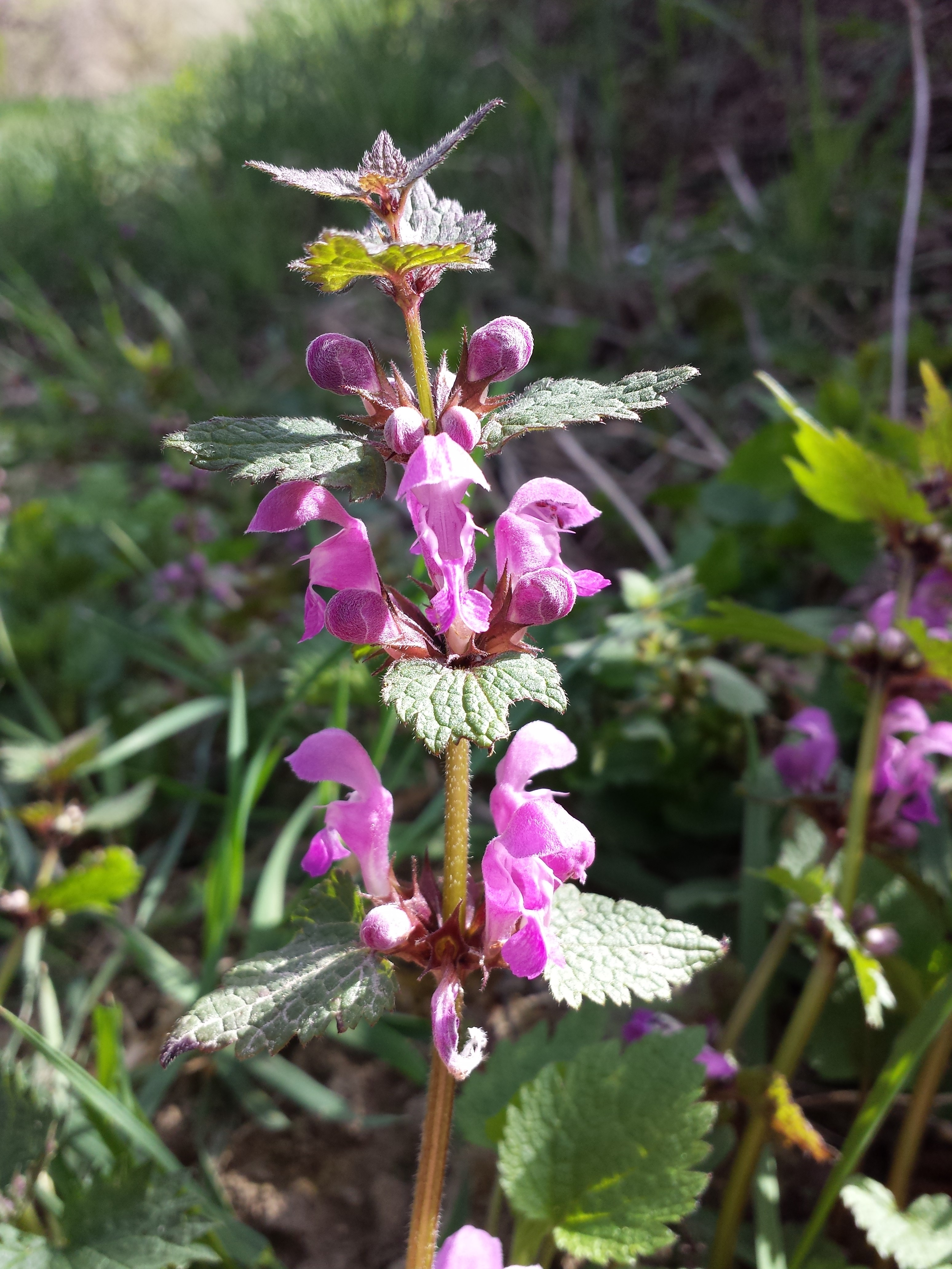 Inflorescence Taxonym: Lamium maculatum ss Fischer et al. EfÖLS 2008 ISBN 978-3-85474-187-9 Location: hollow way near Großebersdorf, district Mistelbach, Lower Austria - ca. 230 m a.s.l. Habitat: hollow way/border of a shrubbery